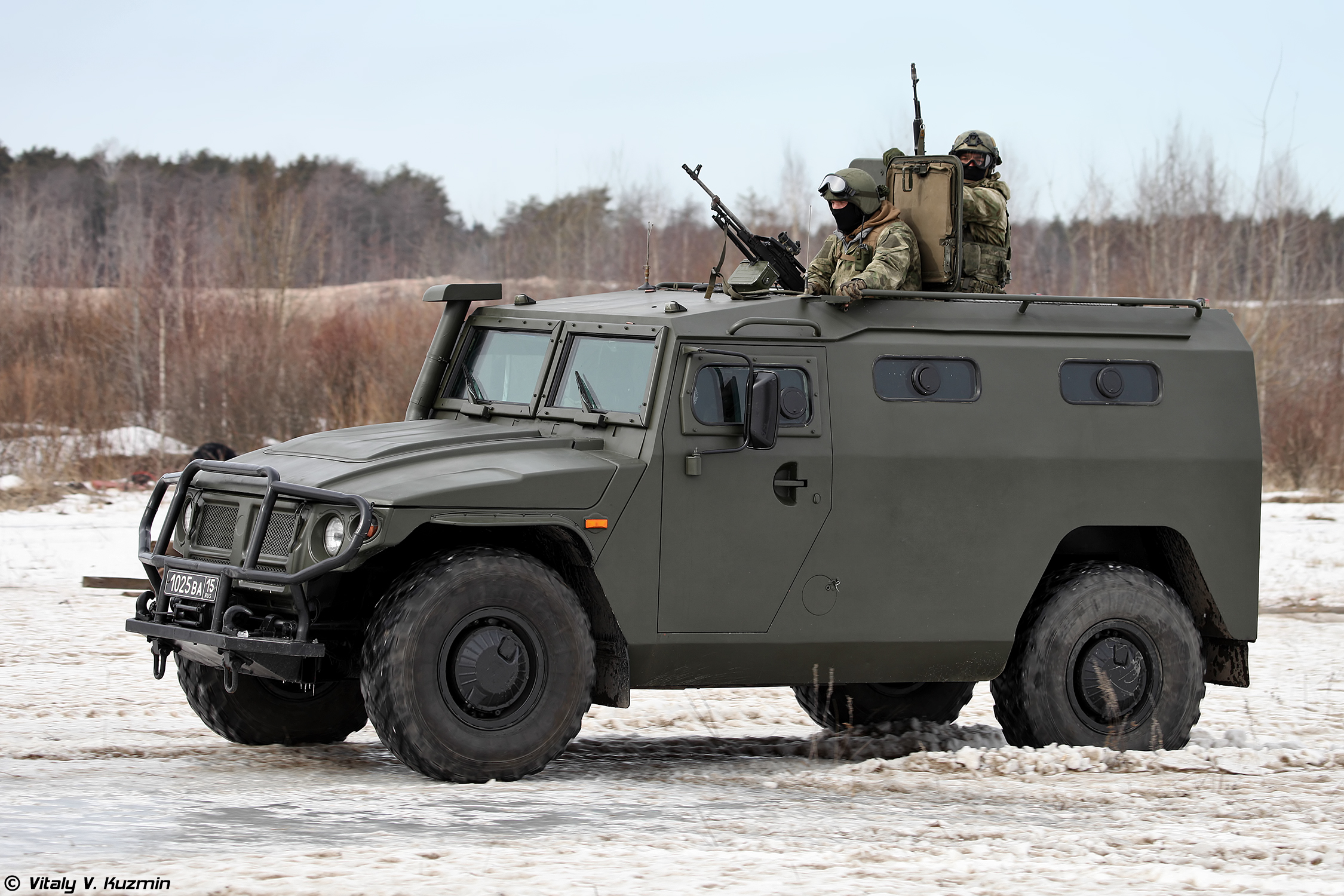 GAZ-233036 SPM-2